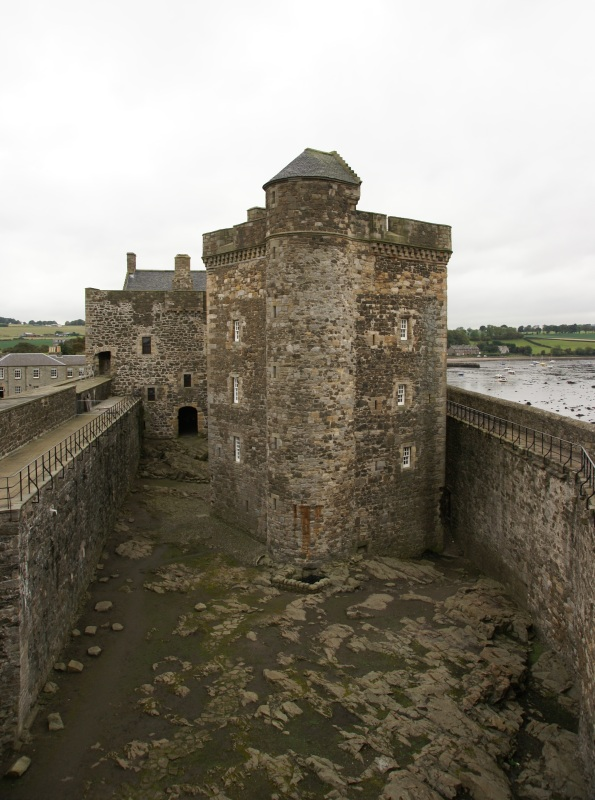 Blackness Castle, Falkirk, Scotland. Central tower, seen from the north.